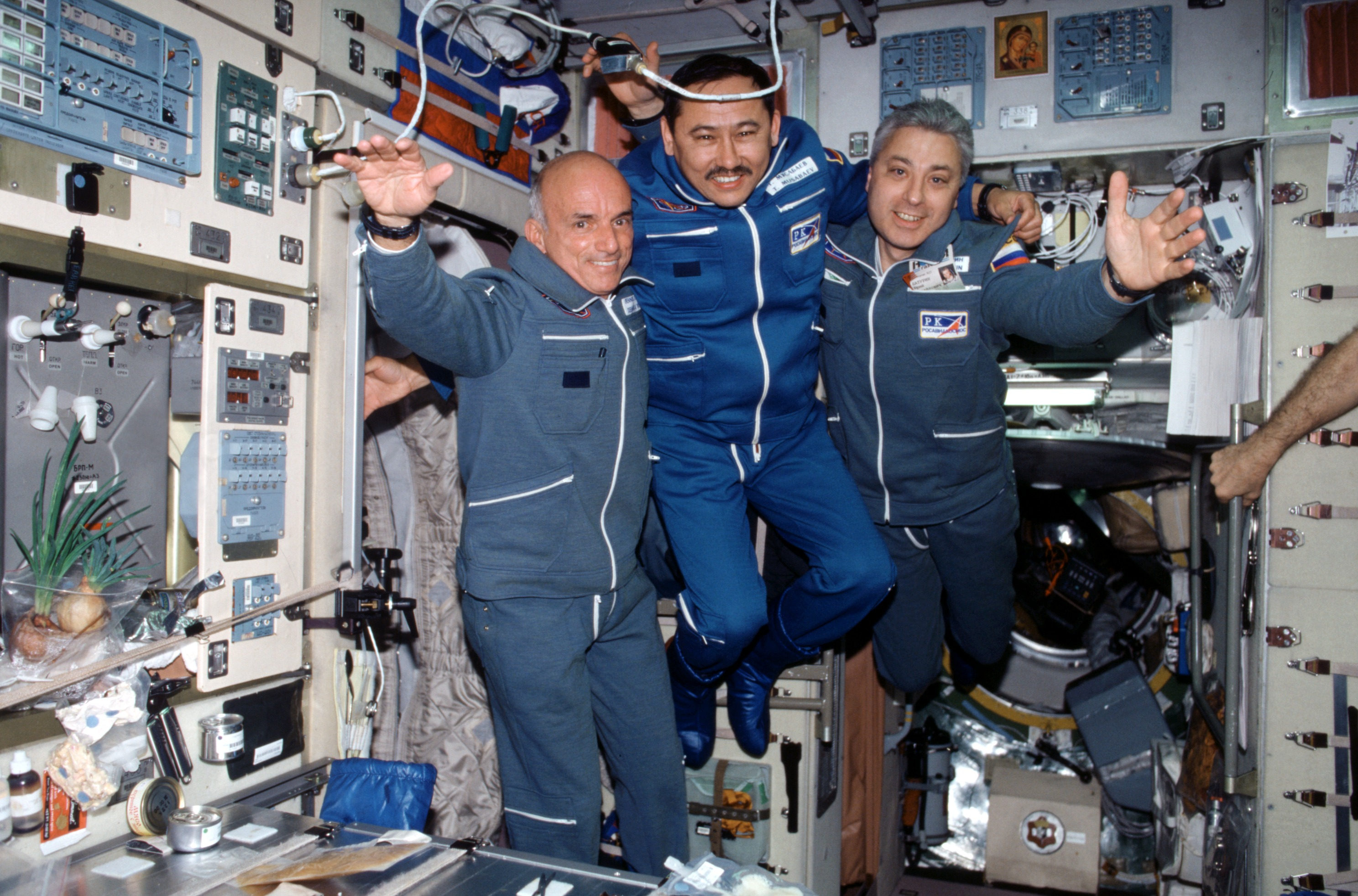 The Soyuz 2 Taxi Flight was the second flight of a Soyuz spacecraft to dock with the International Space Station, or ISS. However, this was the first crew to launch aboard a new Soyuz vehicle and return aboard a previously docked Soyuz. Russian flight rules dictate that a Soyuz remains docked to the ISS and replaced by a fresh Soyuz every six months. Should the station's resident crew encounter an emergency requiring them to disembark the orbital outpost, they would enter the Soyuz lifeboat, undock from the station and de-orbit for a landing on Earth. The Russian spacecraft is certified to remain in space no longer than six months due to the degradation of its propellant over time and space radiation hazards to the vehicle. Soyuz Commander Talgat Musabayev, Flight Engineer Yury Baturin -- both cosmonauts representing Rosaviakosmos -- and American Space Flight Participant Dennis Tito blasted off from the Baikonur Cosmodrome in Kazakhstan at 2:37 a.m. CDT (0737 GMT) on April 28, 2001. They docked to the station two days later on April 30, 2001, at 2:58 a.m. CDT (0758 GMT) to begin nearly eight days of docked operations with the Expedition Two crew. The crews transferred gear and equipment from the new Soyuz to the orbital outpost, as well as into the older Soyuz spacecraft in which the visiting crew would return home. Wrapping up its visit to the International Space Station, the three-member crew, which included the first paying visitor on a space mission, undocked from the aft docking port of the Zvezda Service Module in the Soyuz TM-31 on May 6, 2001, at 9:21 p.m. CDT (May 7 at 0221 GMT). Two-and-a-half hours later, Musabayev fired the Soyuz's engines beginning their crew's descent to Earth where they landed on the Kazakh Steppes at 12:42 a.m. CDT (0542 GMT) on May 7, 2001. The previous Taxi Flight crew to the International Space Station was actually the Expedition One crew which had launched aboard a Soyuz TM-31 spacecraft.